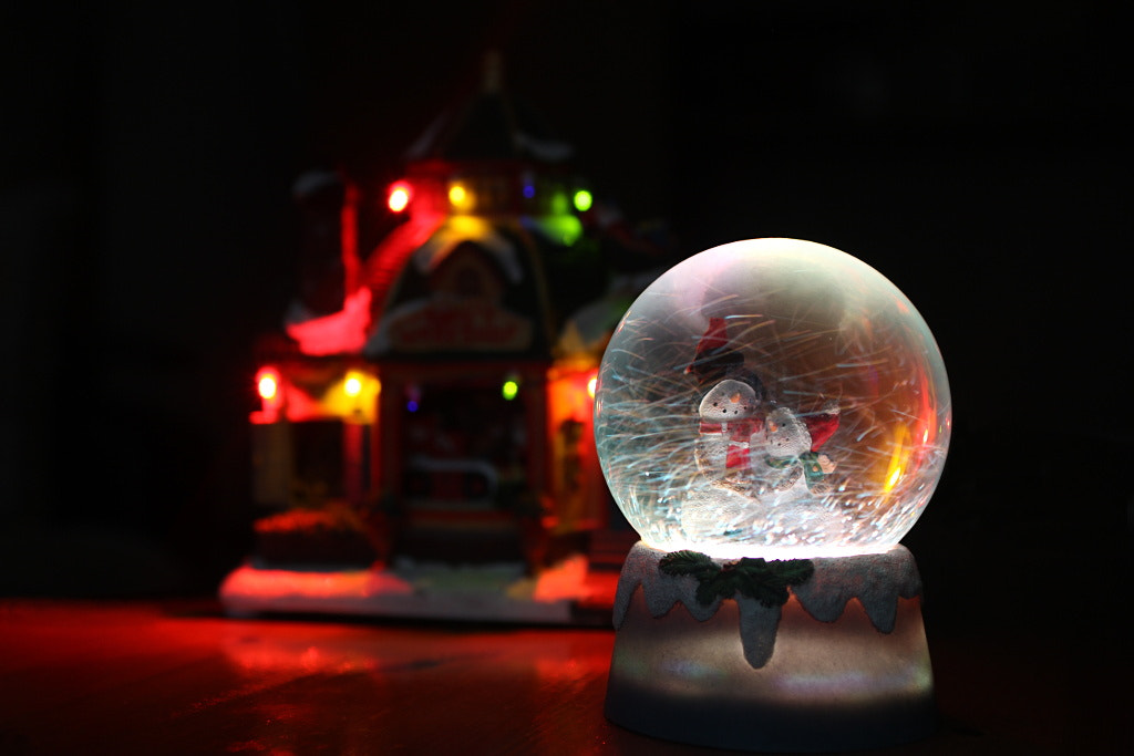 500px provided description: winter holidays are near [#winter ,#snow ,#holidays ,#globe]